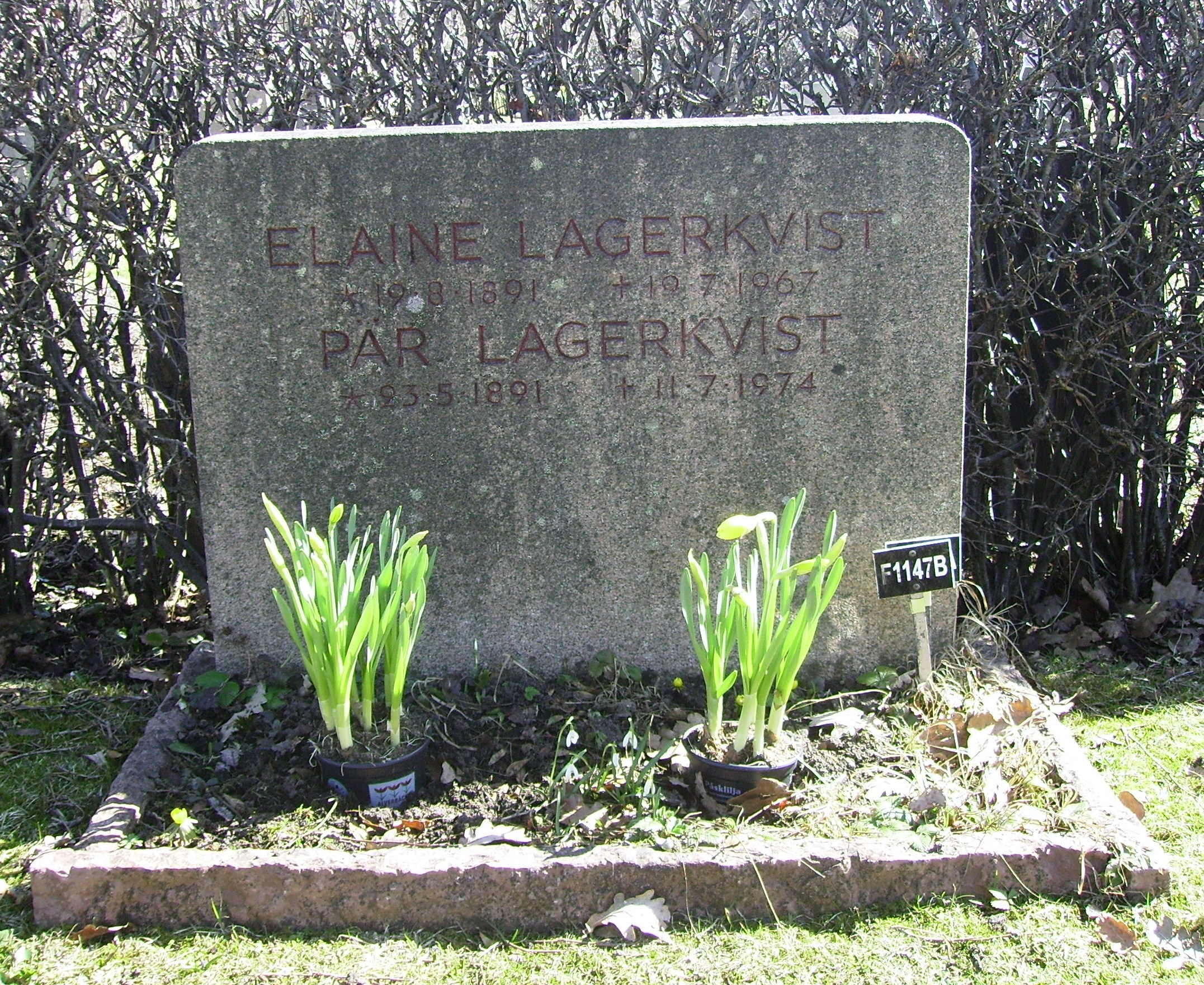 Picture of Per Lagerkvist's grave at Lidingö kyrkogård